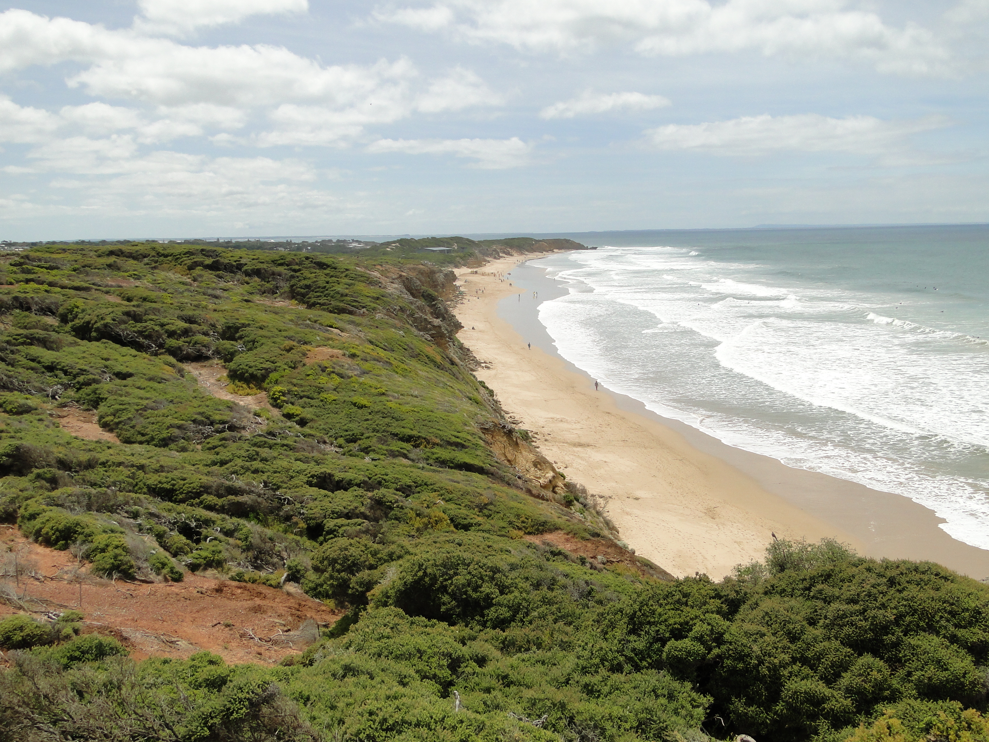 The surf beach at Jan Juc, Victoria, Australia, looking east towards Torquay.